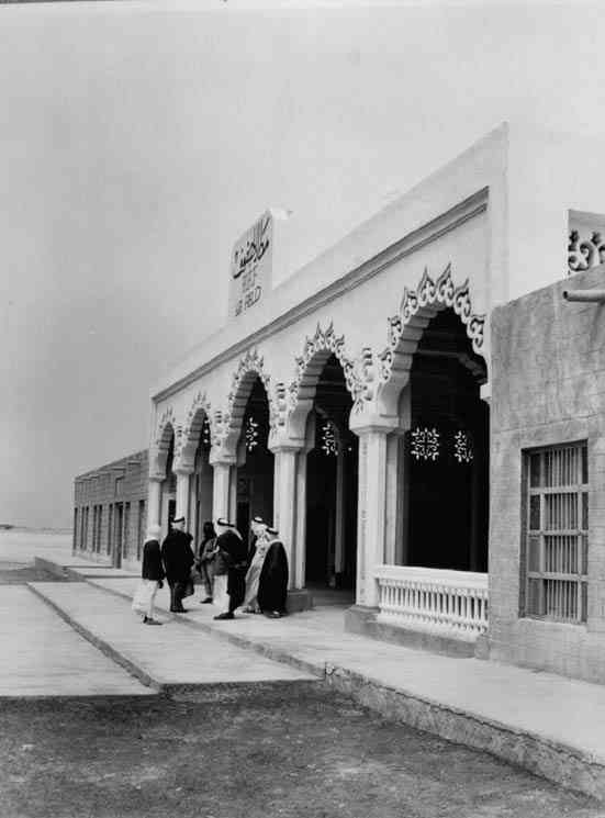 Airport Hofuf in 1949